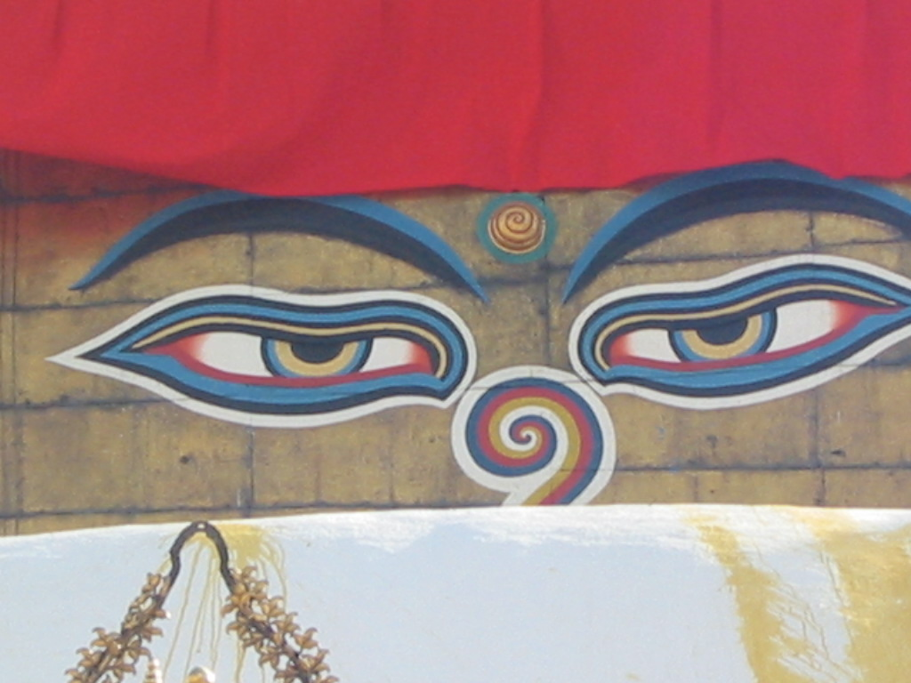 The eyes of Buddha at Swayambunath temple, Khatmandu, Nepal.